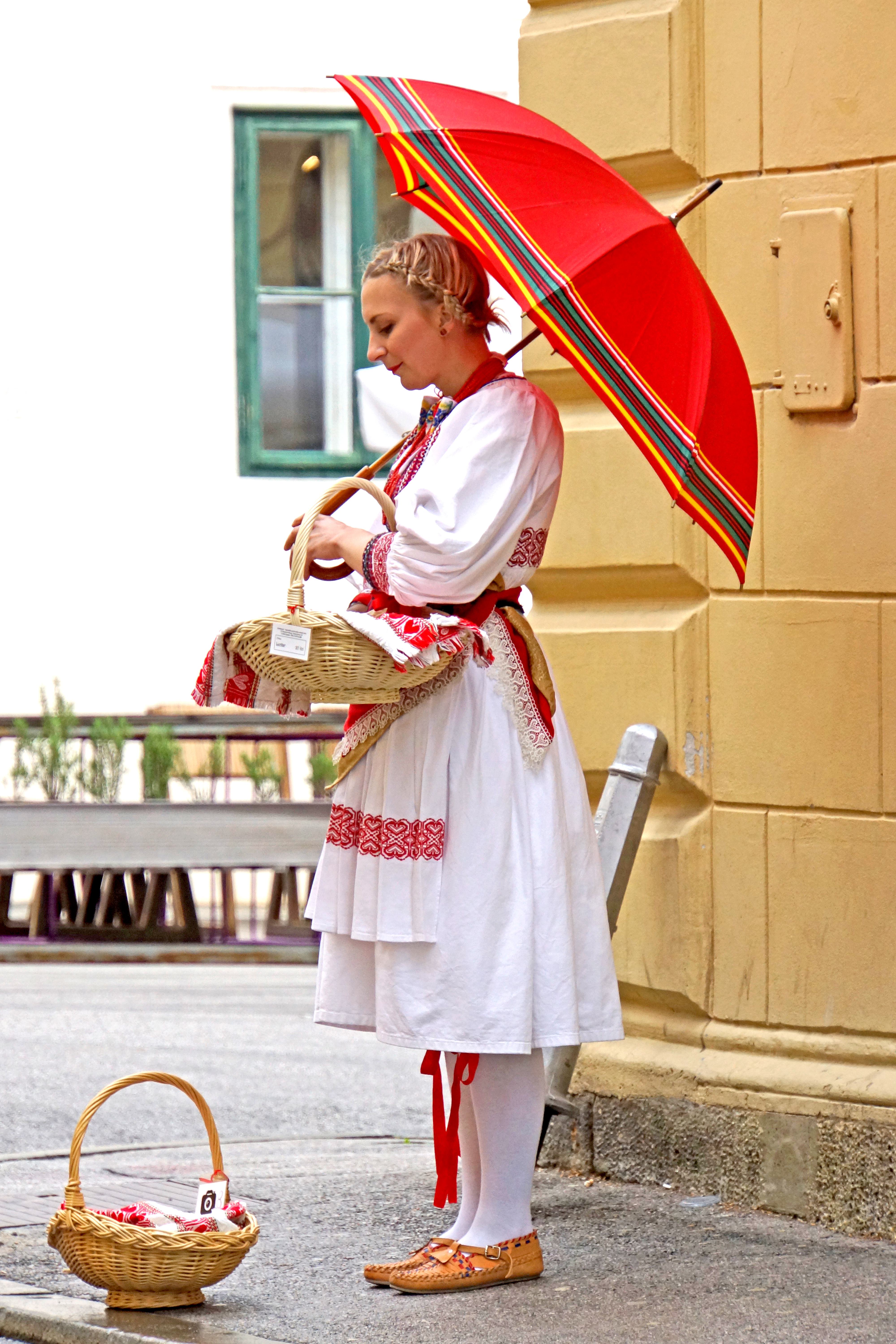 This lady dressed in tradition costume and colours, she was selling things to the tourists and posing for pictures.